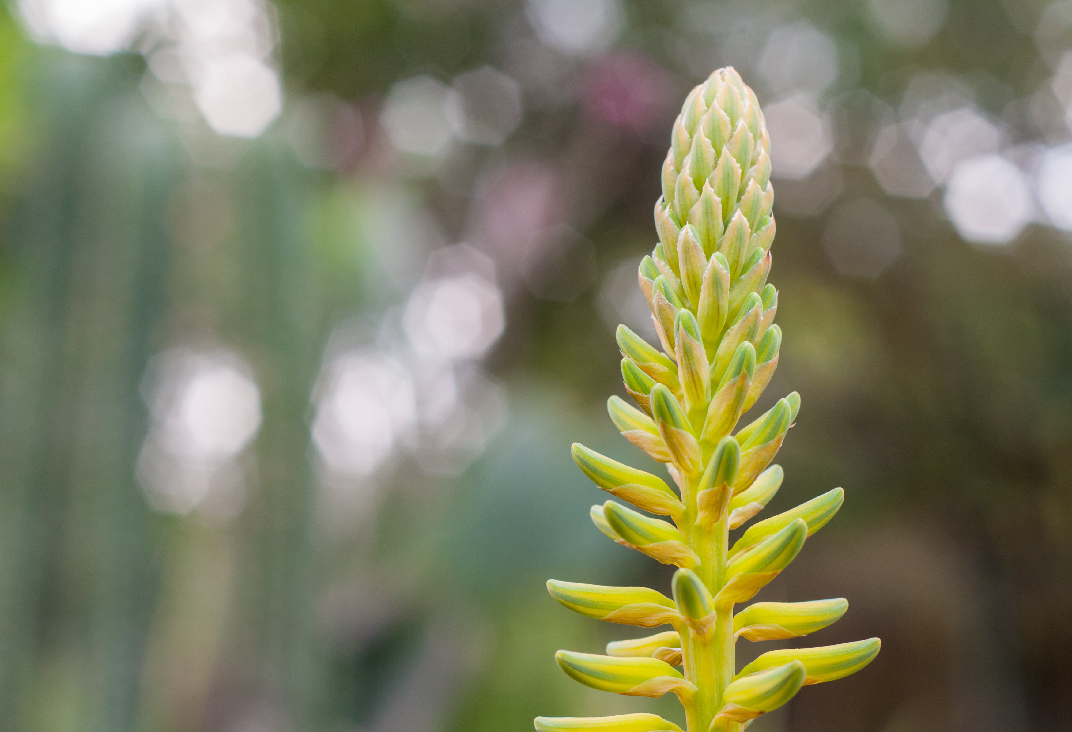 Agave cocui Flower from Baradidas Zoo, Venezuela